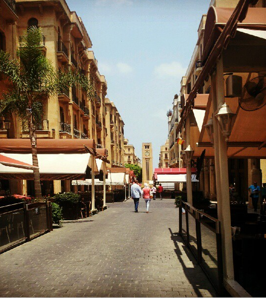 Maarad street leading to Nejmeh Square